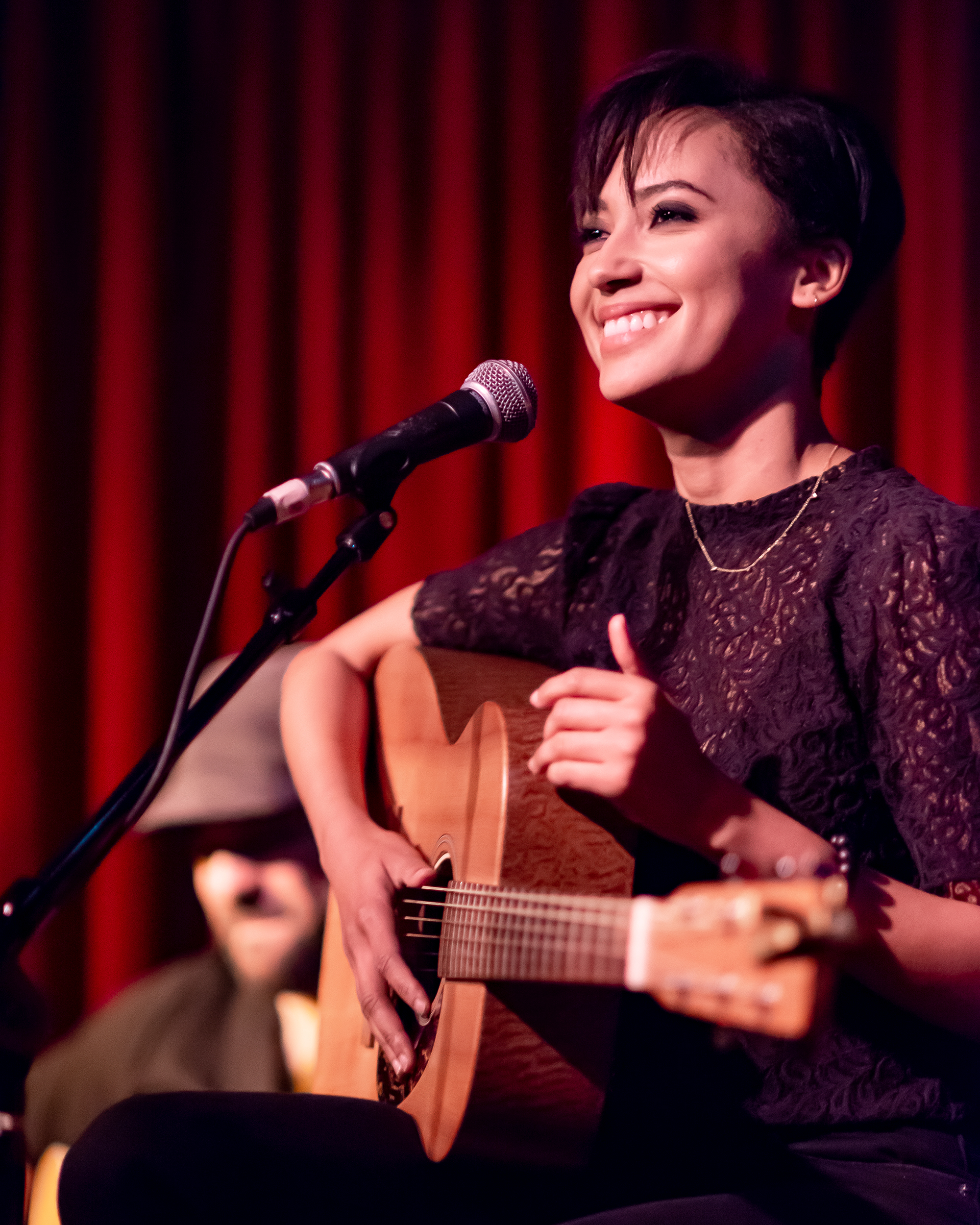 Andy Allo performing live at the Hotel Cafe in Hollywood, Los Angeles, California, on Saturday, June 16, 2018.